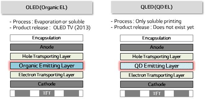 OLED vs.QLED